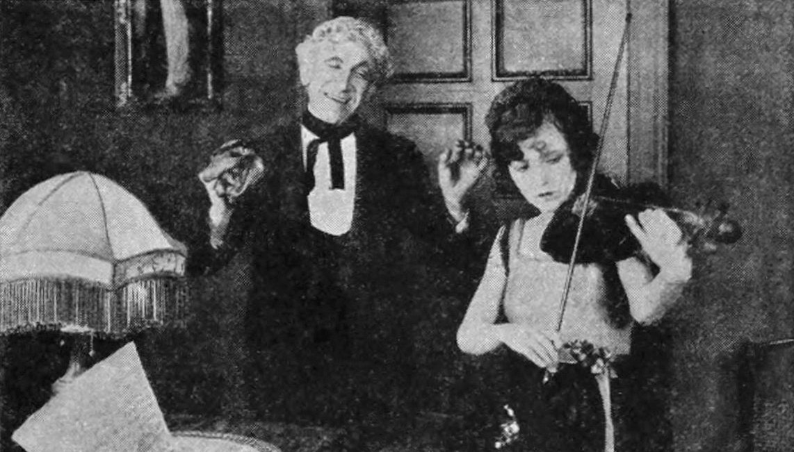 Still from the American film Forget Me Not (1922) with Bessie Love, on page 61 of the October 1922 Photoplay.